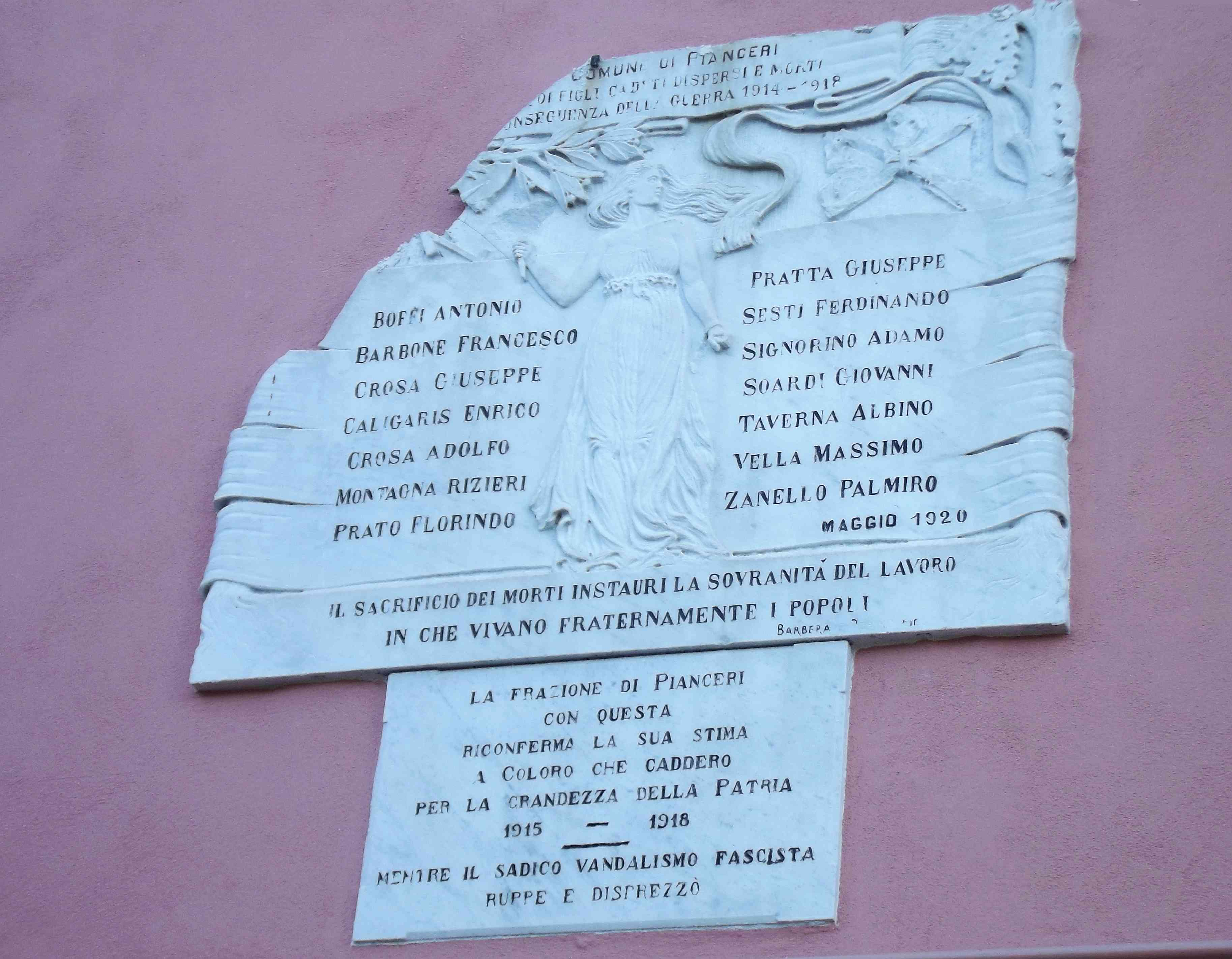 Pianceri (Pray, BI, Italy): war memorial tablet on the former town hall